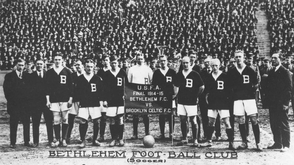 Bethlehem Steel FC before playing the final match of the 1914-15 season against Brooklyn Celtic FC.